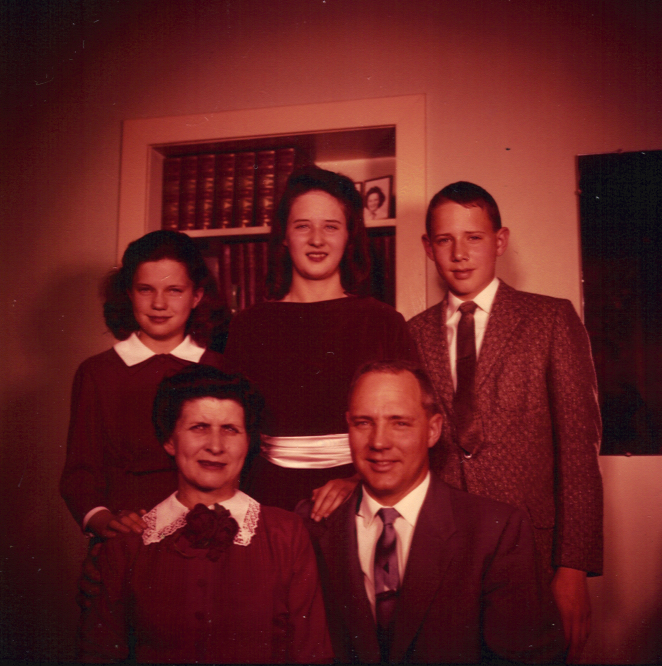 1958, Seamount Family in Loma Linda, California. I scanned this photo which was taken by my grandfather Bob Seamount. Front to back, left to right: Ellen, Bob, Karen, Roelle, Robert II.